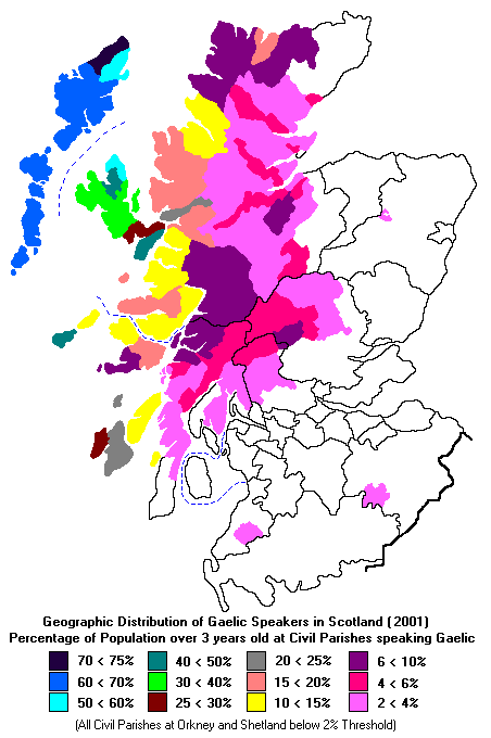 Geographic distribution of Gaelic speakers in Scotland as of 2001